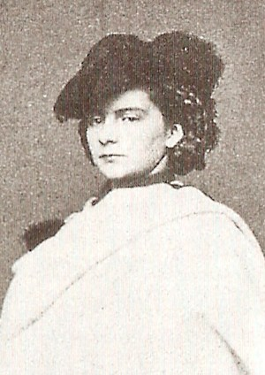 Alphonse Bernoud (1820-1889) - Maria Sophie Amalie of Bavaria (1841-1925), last queen of the Kingdom of the Two Sicilies.